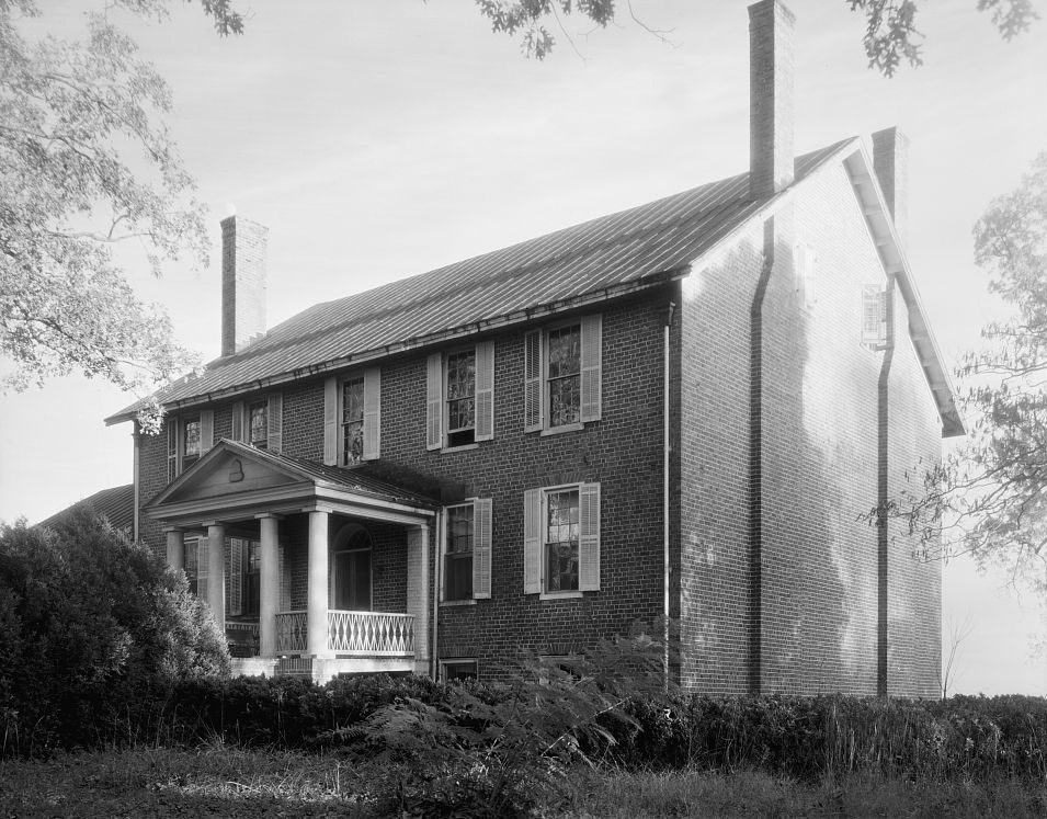 Black and white 8 x 10 photographic negative of Oak Hill plantation, near Danville, Pittsylvania County, Virginia, by the American photographer and photojournalist Frances Benjamin Johnston. Dated circa 1930-1939. Oak Hill belonged to Samuel Hairston, of a family long settled in the area. This photograph forms part of the Johnston archives at the Library of Congress, which were donated to the Library by the photographer in perpetuity, hence there are no restrictions on publication.